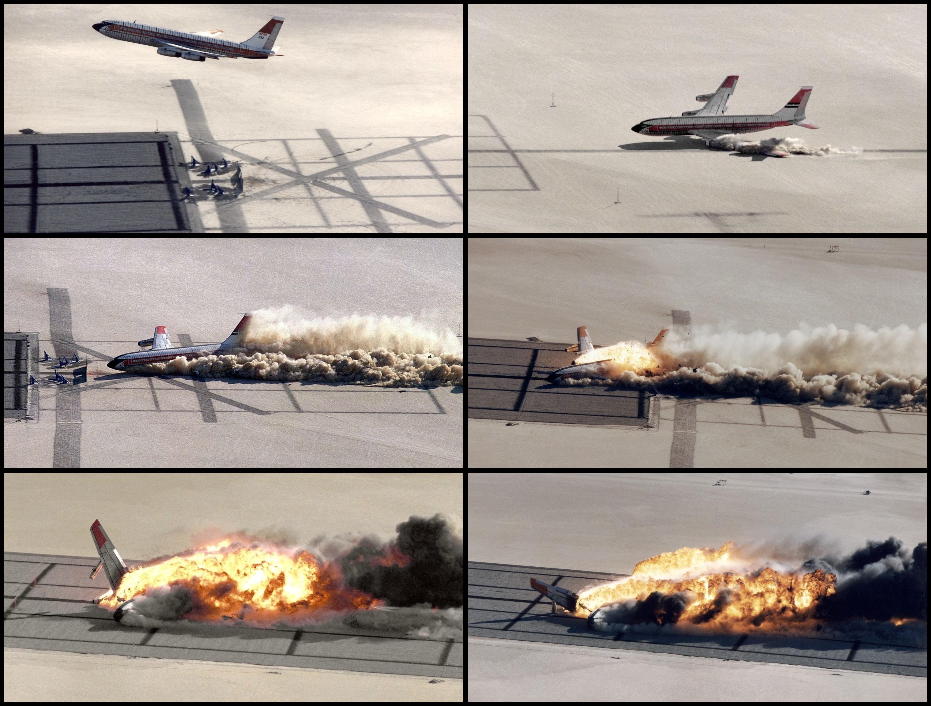 CID Aircraft lakebed skid, six images resized and cropped into an array.